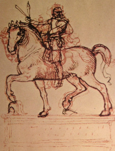 Leonardo da Vinci, drawing of an equestrian monument